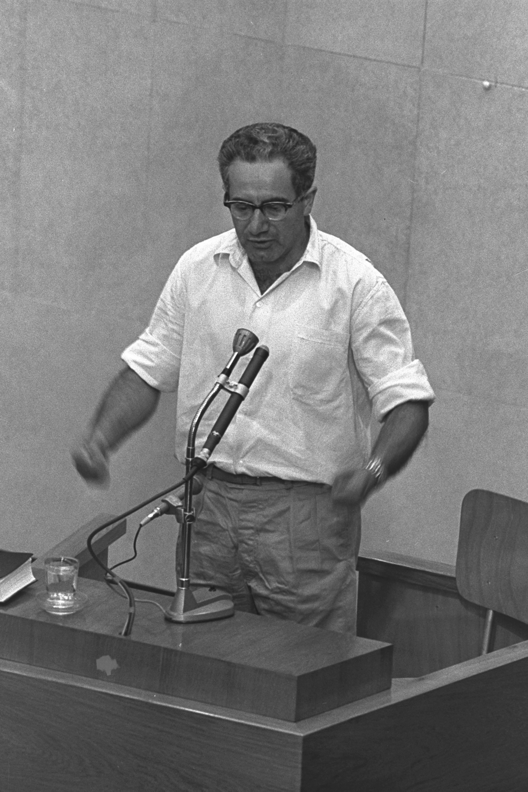 Israel Guttman testifying at Eichmann's trial in Jerusalem, 1961